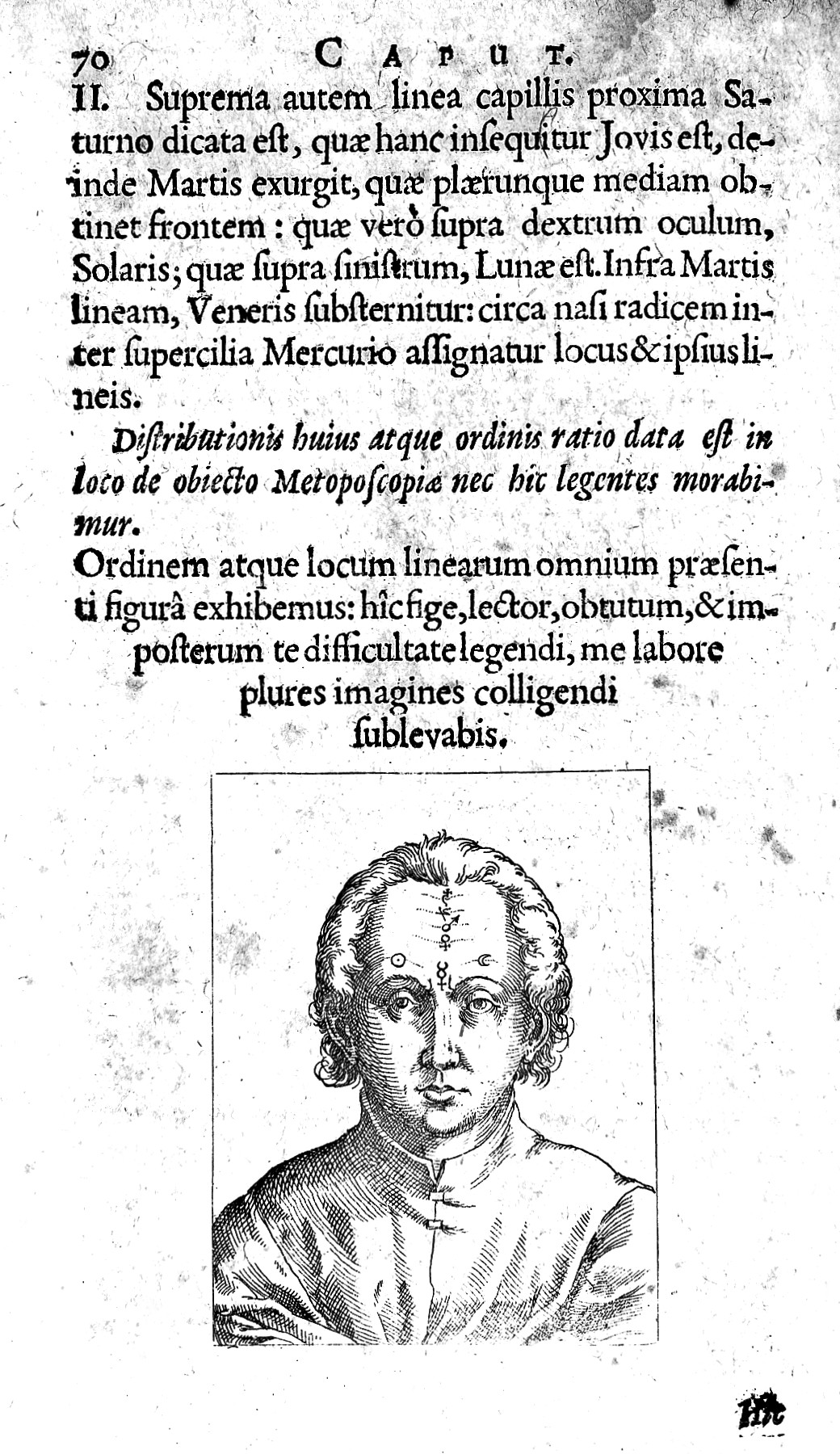 Face and text Rare Books Keywords: metoposcopy, 17th century; physiognomy, face; Samuel Fuchs